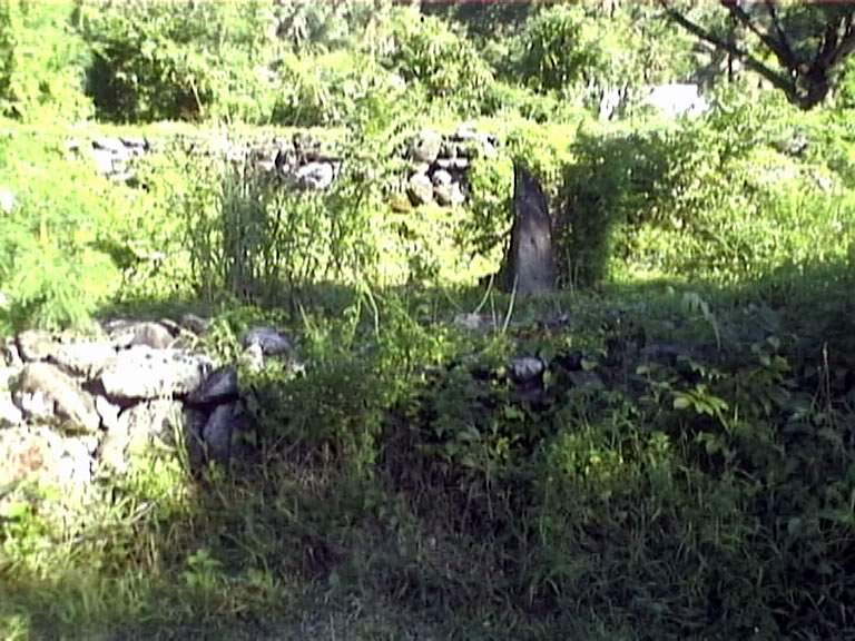 Taputaputatea (behind Makea Palace), Avarua Rarotonga (picture taken by Laurent Nevers)